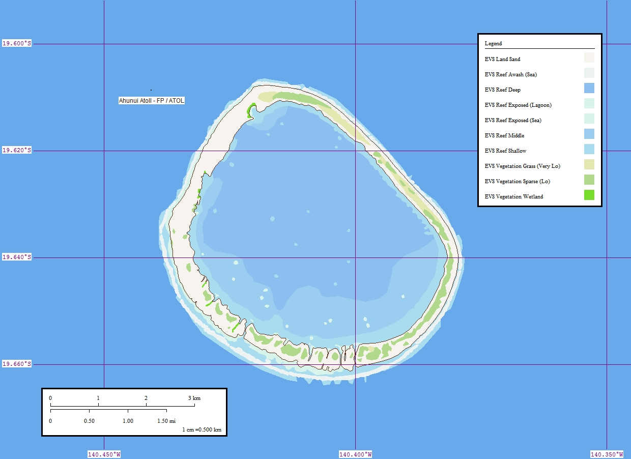 Map of Ahunui Atoll, Tuamotu Archipelago, French Polynesia